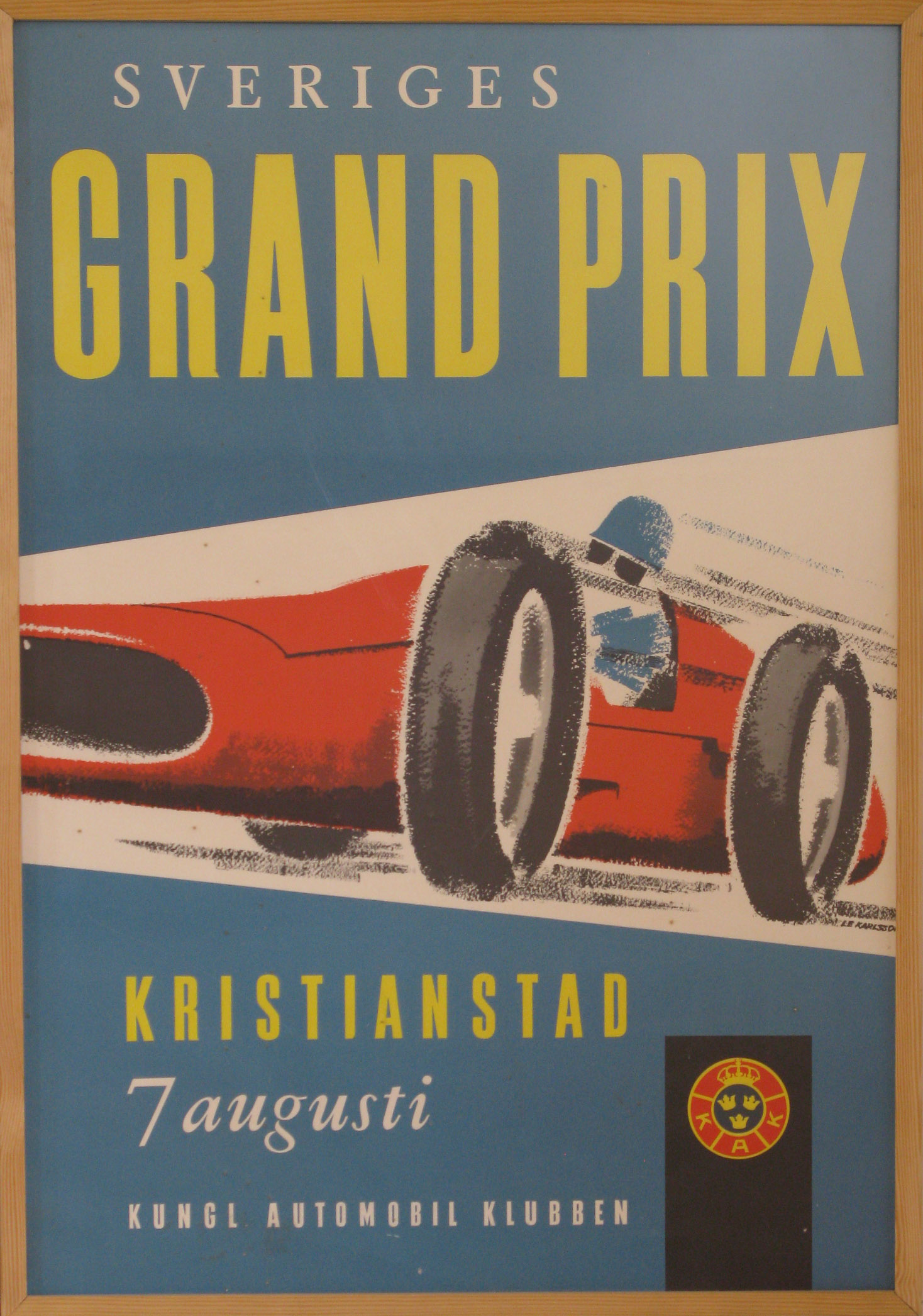 1955 Swedish Grand Prix poster.